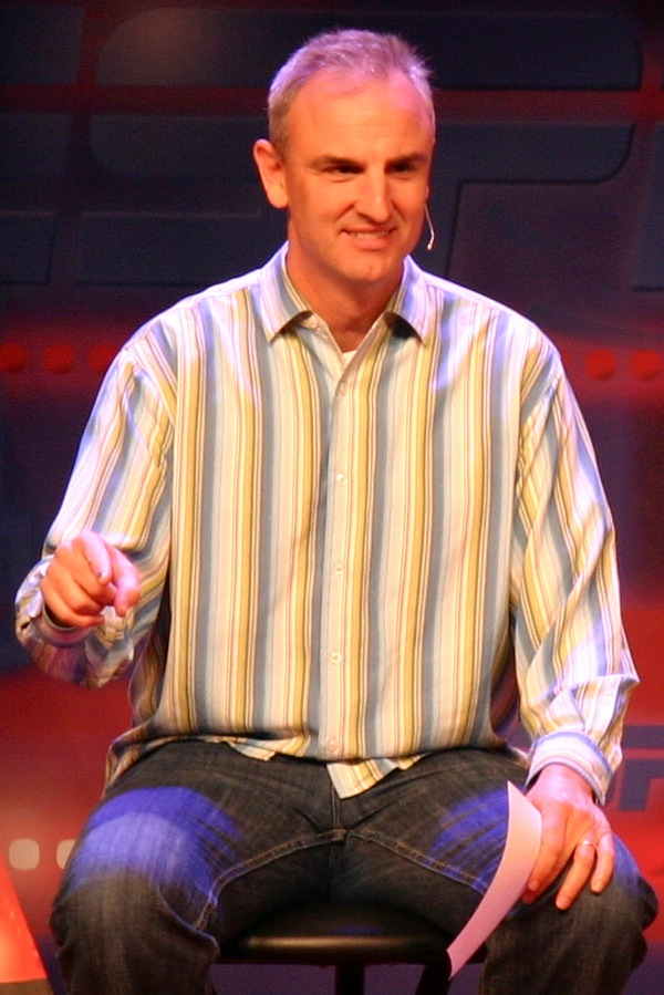 Trey Wingo at Inside ESPN NFL Flive in the Premiere Theater during ESPN The Weekend, February 26, 2010 This file has been extracted from another file: NFL Live ESPNWeekend2010-026.jpg